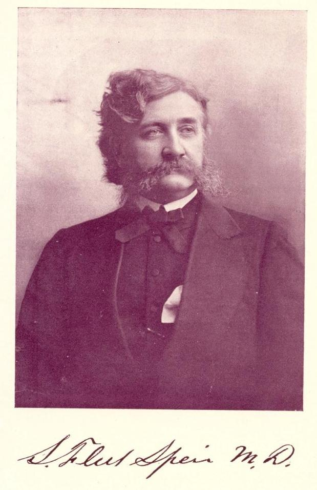 Samuel Fleet Speir